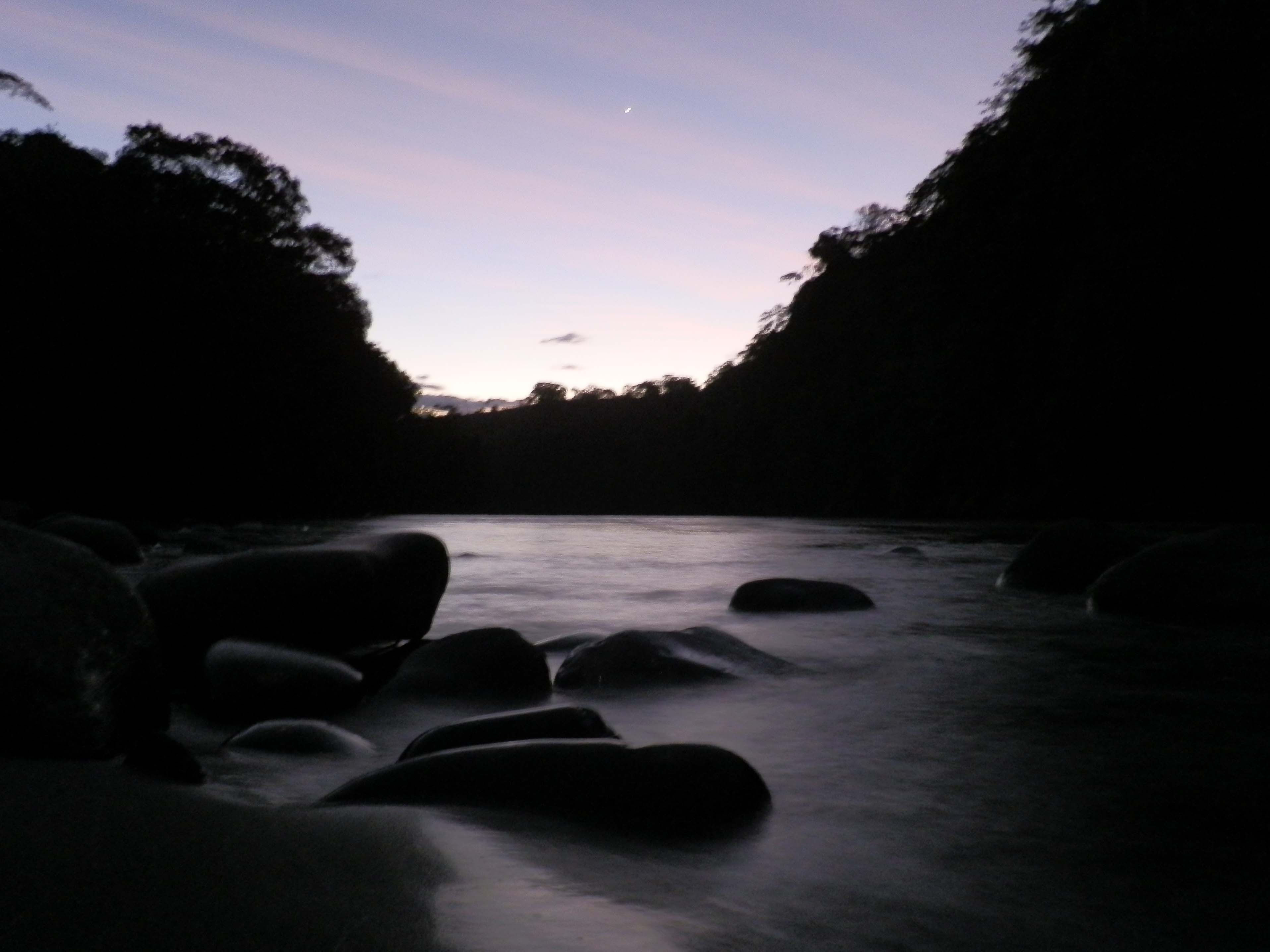 Natural Hot Springs near-by the Rio Upano in Logroño, Ecuador